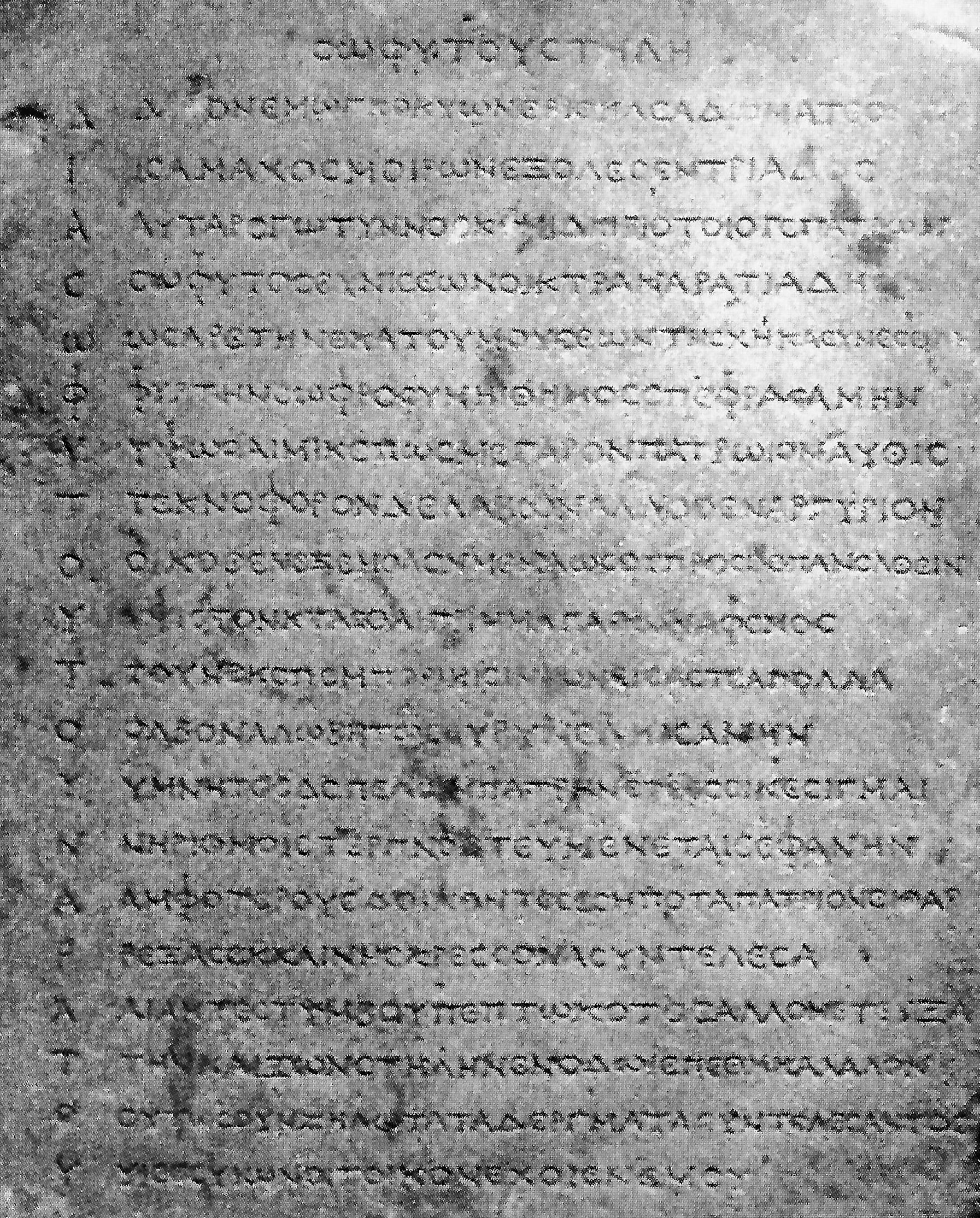 Kandahar Sophytes Inscription. Only flat 2D portion was kept, and external frame eliminated in accordance with PD-Art rules.